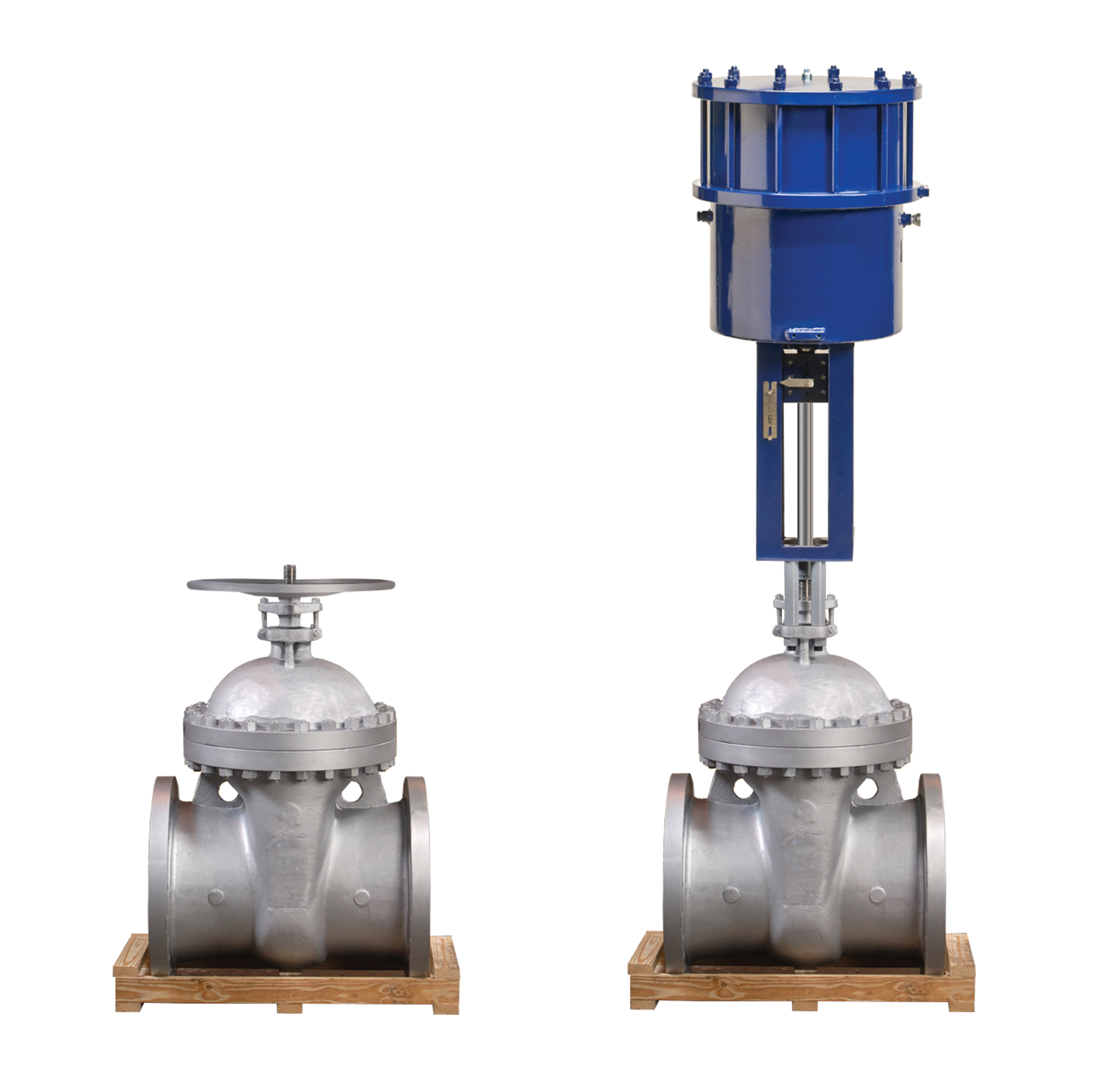 Image showing a gate valve with Handwheel on the left and one with a linear pneumatic actuator on the right. This illustration shows that attaching a linear actuator to a gate valve is fairly straightforward, and allows the actuator to move the stem up and down directly, thereby opening or closing the valve directly.